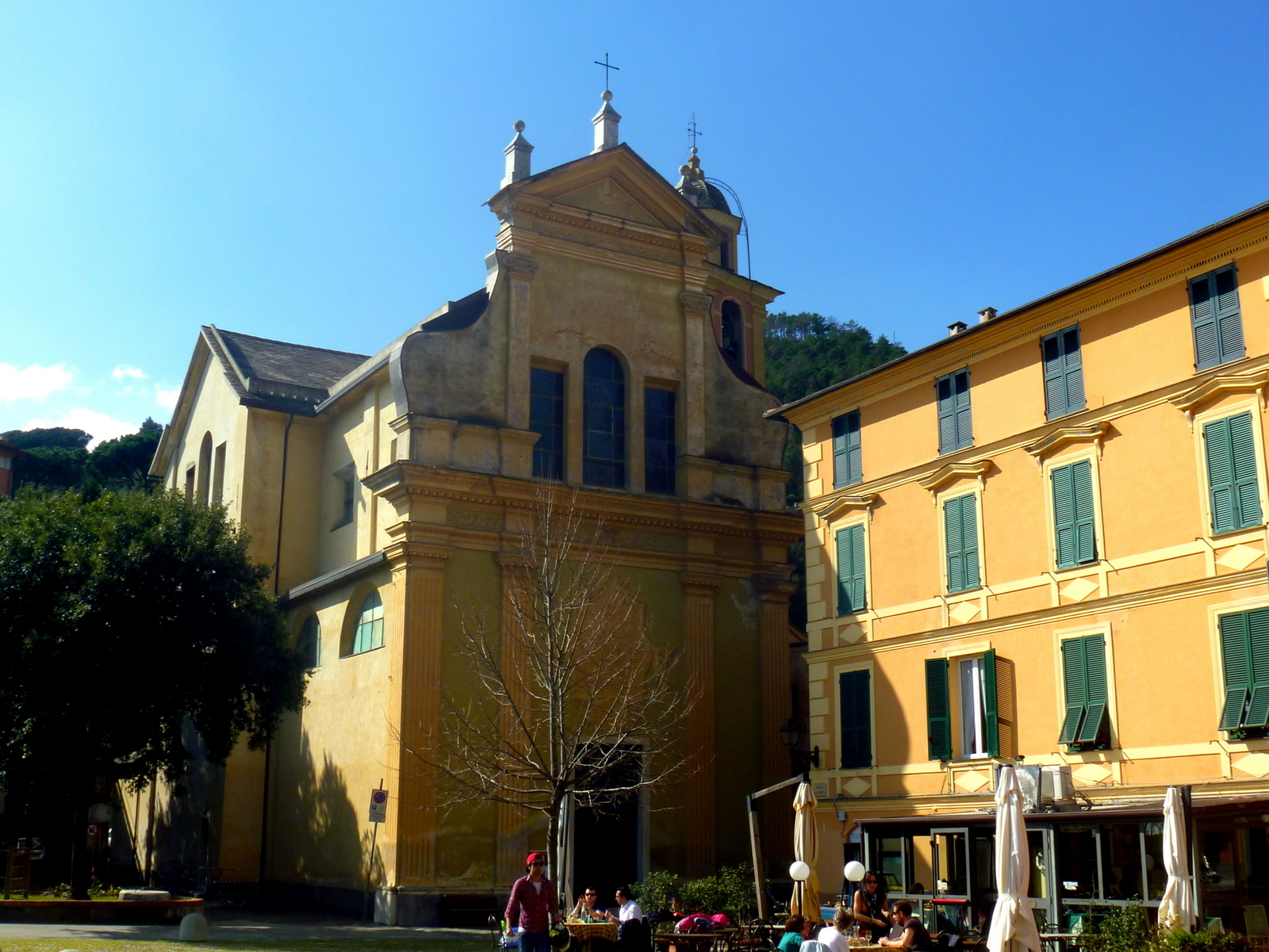 Saint Catherine of Alexandria church, Bonassola